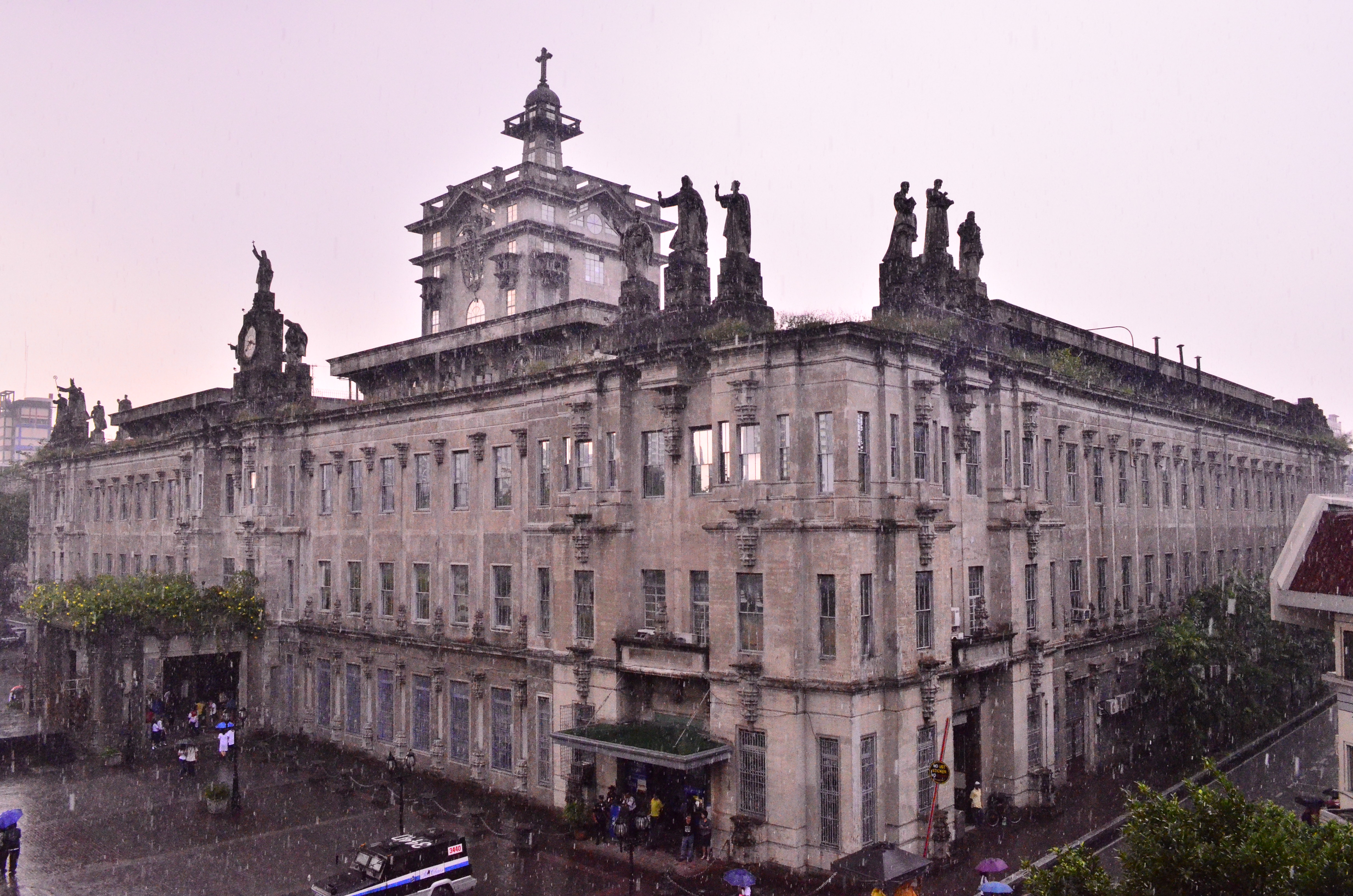 "Main Building" — on University of Santo Tomas campus in Manilla, the Philippines. The Philippine Beaux-Arts / Renaissance Revival style building was completed in 1927.